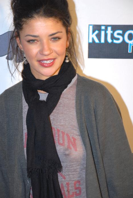 Actress Jessica Szohr